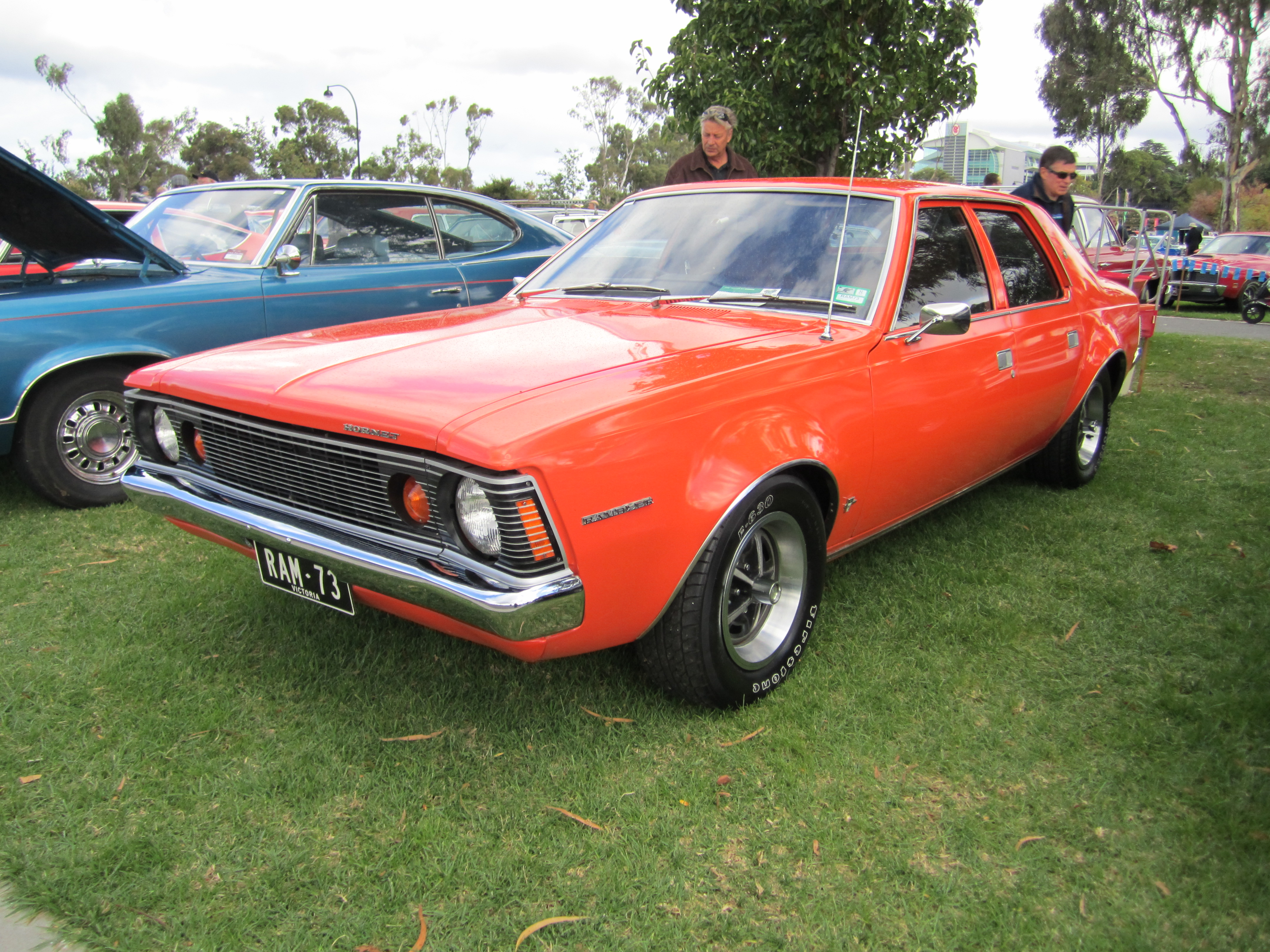 The Hornet was a compact car built by AMC from 1969-77 in the US, but variations were also built in Mexico and Australia. Known in America as the AMC Hornet, it was available as a Coupe, Sedan or Wagon, but this car was built in Australia by Australian Motor Industries (AMI) and badged as a Rambler Hornet. It was only available as a 4 door. Engine; 232 or 258 cu in 6 cyl